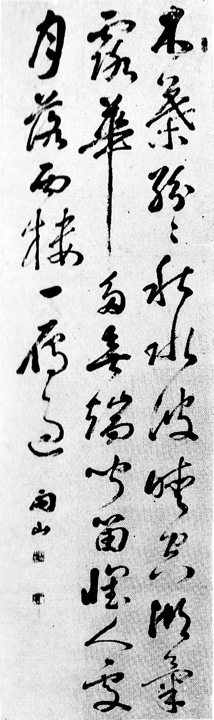 Japanese calligraphy of Uzan Nagao